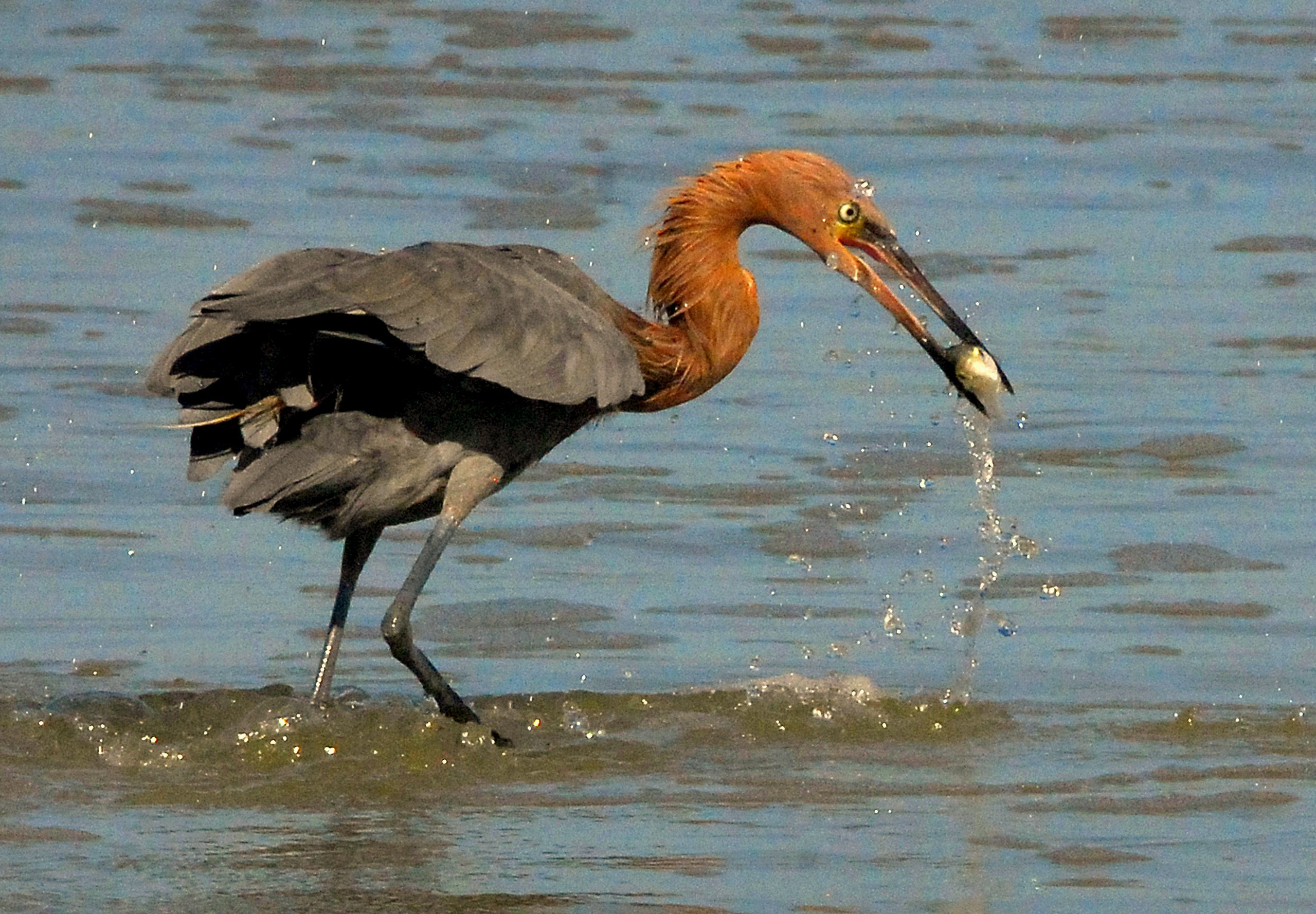 Big Red at Smyrna Dunes Park